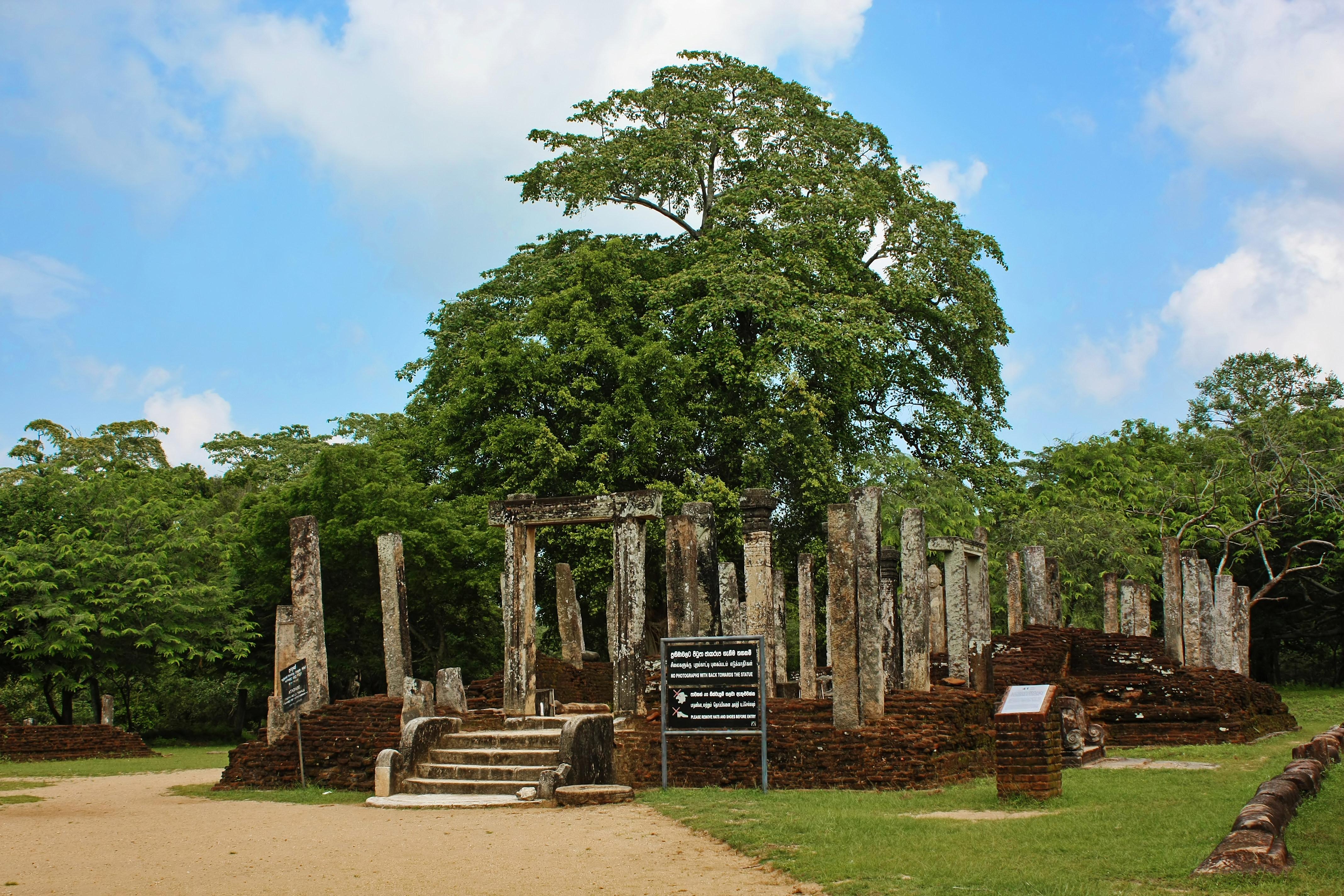 Ruins of Atadage, which was the house of the tooth relic of Buddha during Polonnaruwa era.